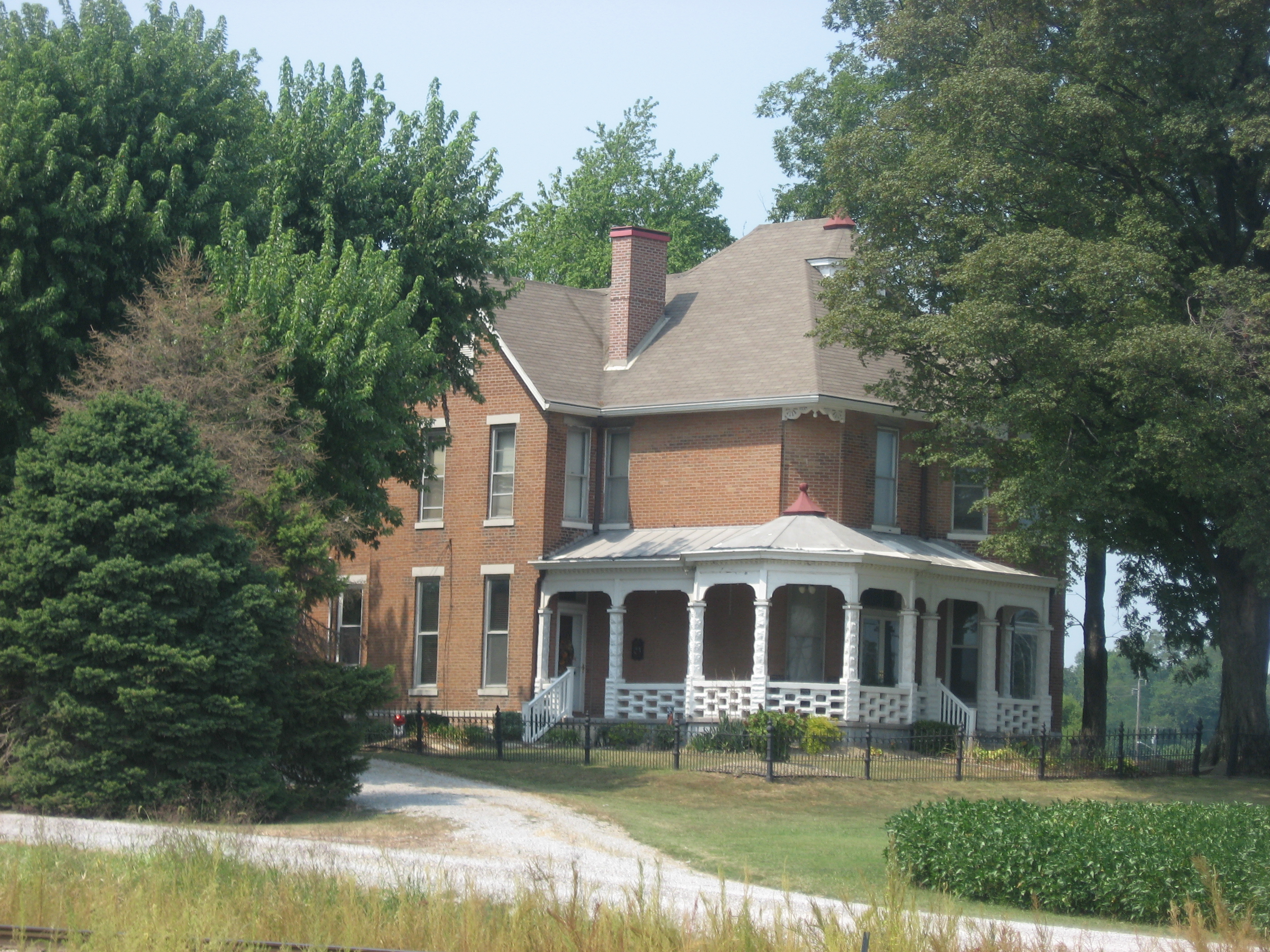 Front of the Frederick and Augusta Hagemann Farmhouse, located at 201 Parke Street on the western edge of Mount Vernon, Indiana, United States. Built in 1895, the farmhouse and several related buildings are listed together on the National Register of Historic Places.